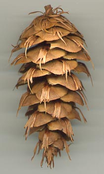 Pseudotsuga menziesii subsp. menziesii cone. From a tree grown from seed collected by David Douglas